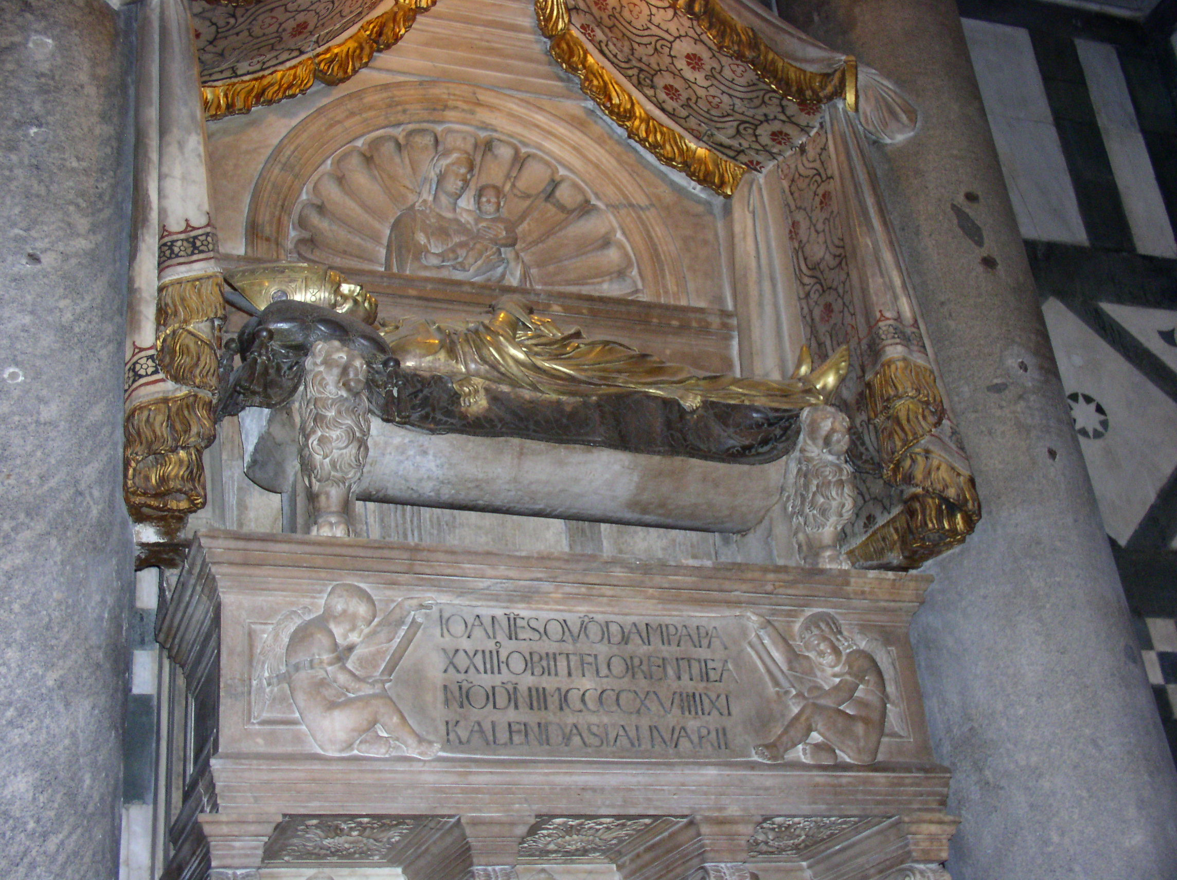 Description: Sarcophagus of antipope John XXIII. Place: baptistery, Florence, Italy. Author of photo: Stas Kozlovsky Date of photo: 10th June 2006